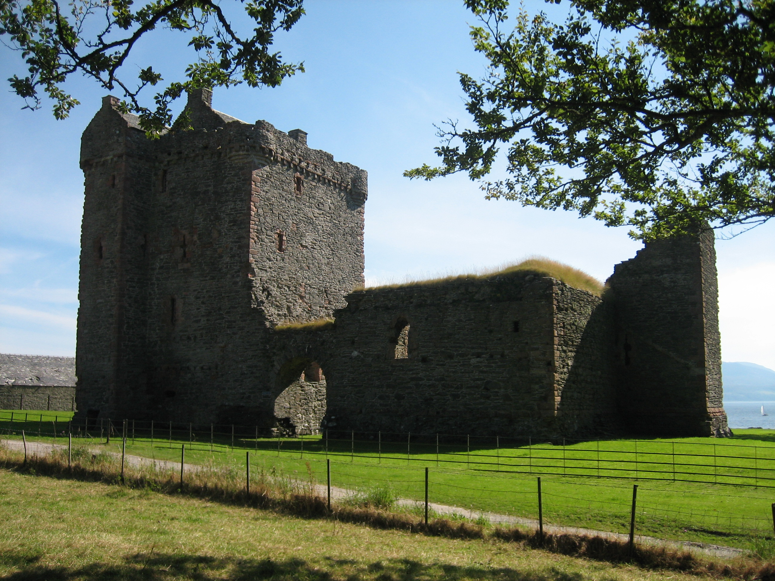 The ruins of Skipness Castle at the east coast of Kintyre, Scotland